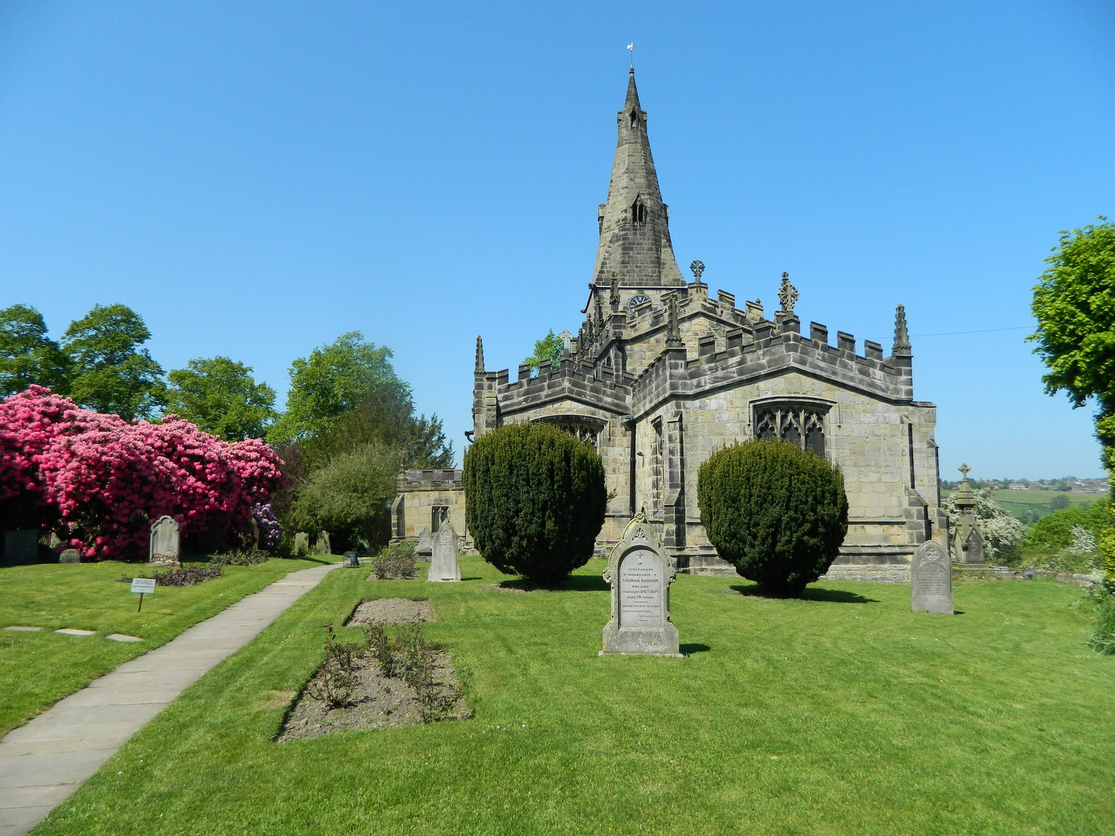 St Clements, Horsley, Derbyshire